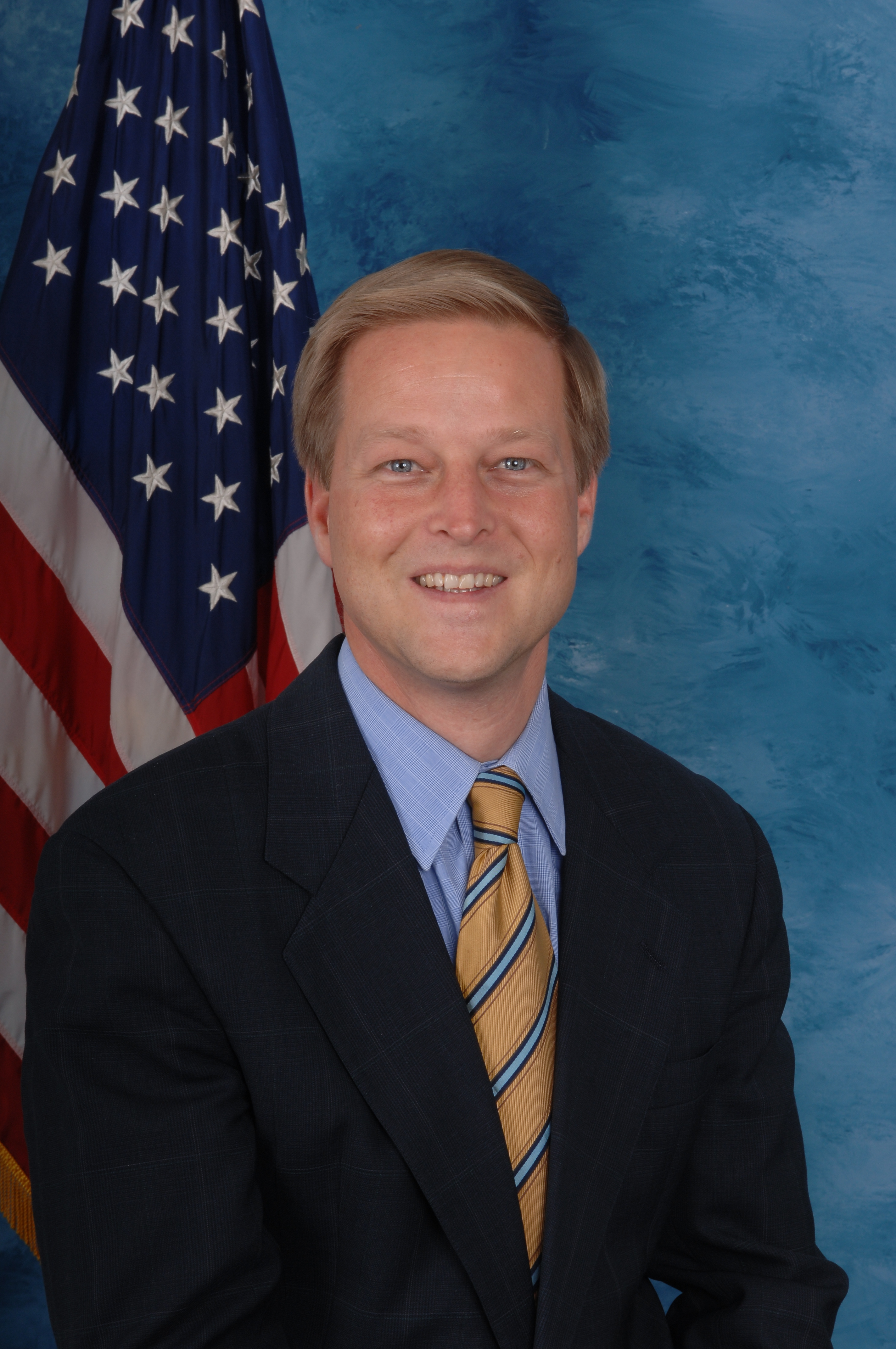 Official portrait of US Congressman Frank M. Kratovil, Jr.